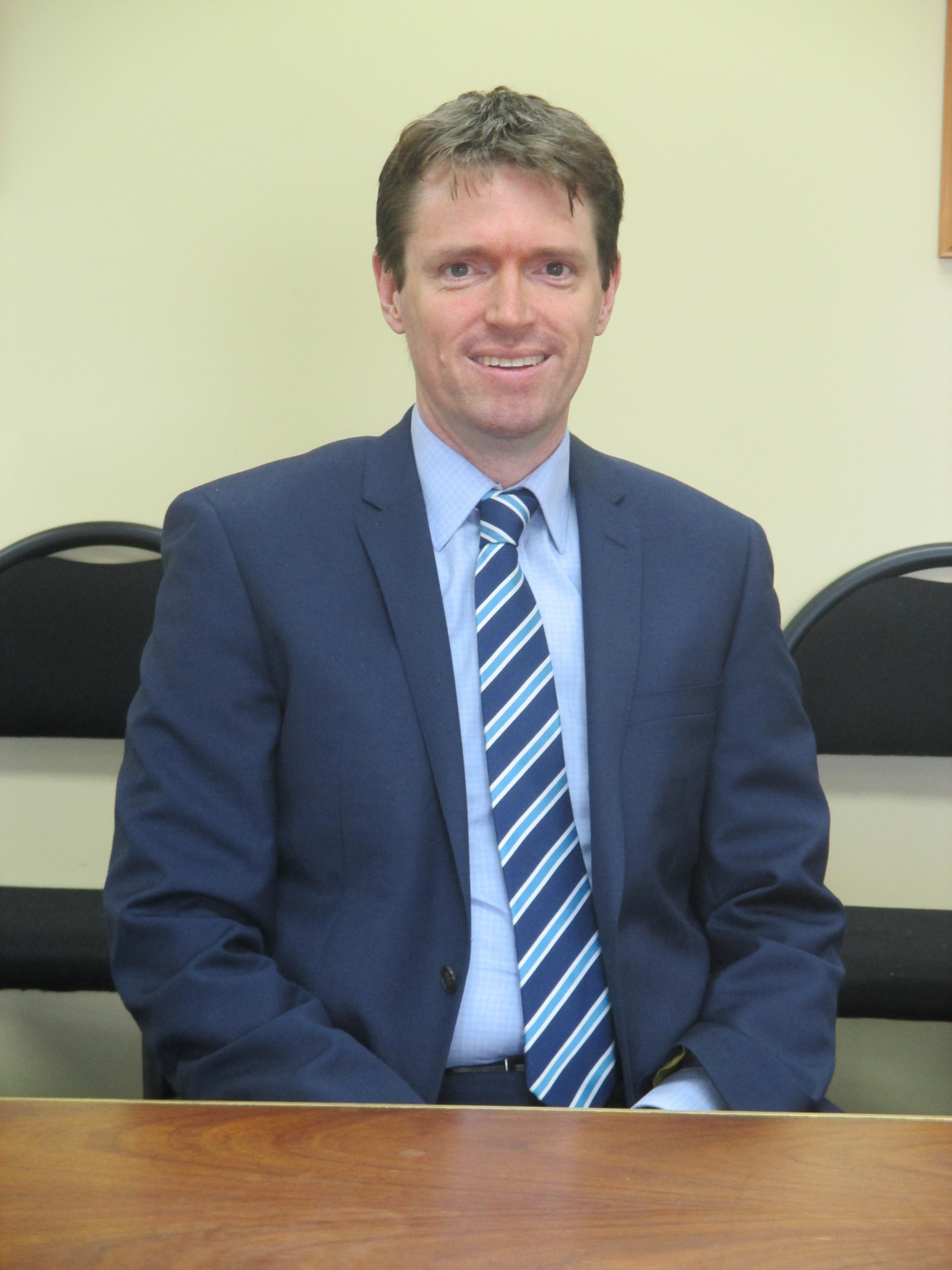 Portrait of Colin Craig taken during an interview conducted by Wiremu Demchick. Māori: Ko Colin Craig, i te tau 2015 i a Wiremu Demchick e patapatai ana.